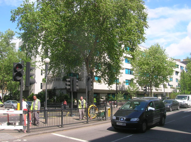 Cromwell Hospital, Cromwell Road SW5 At the junction with Marloes Road W8